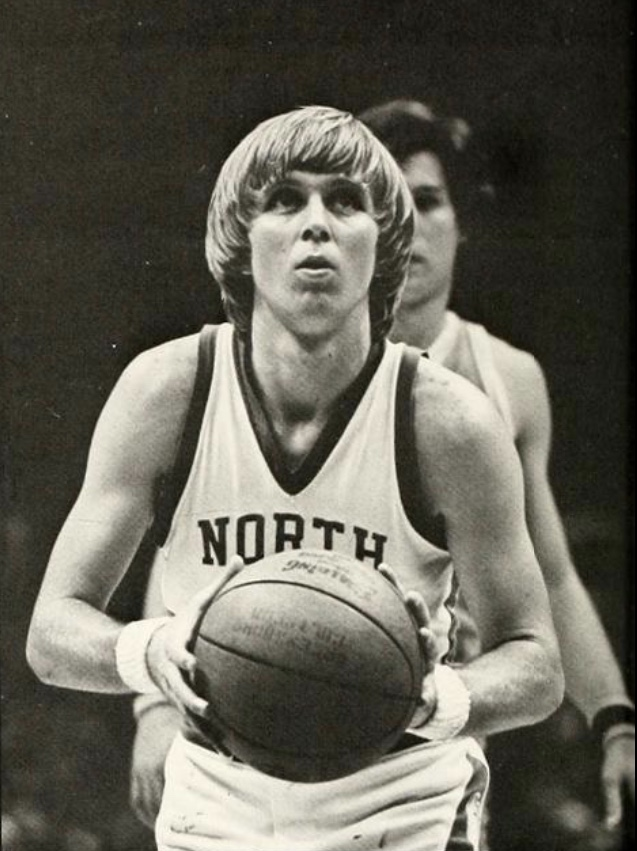 American college basketball player Brad Hoffman of the UNC Tar Heels lines up for a free throw in the 1974-75 season